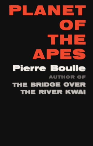 Cover of Planet of the Apes, by Pierre Boulle, American first edition hardcover.